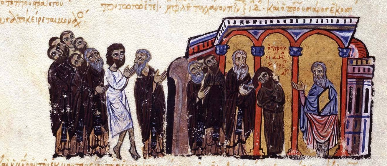 Tonsure of Prousianos